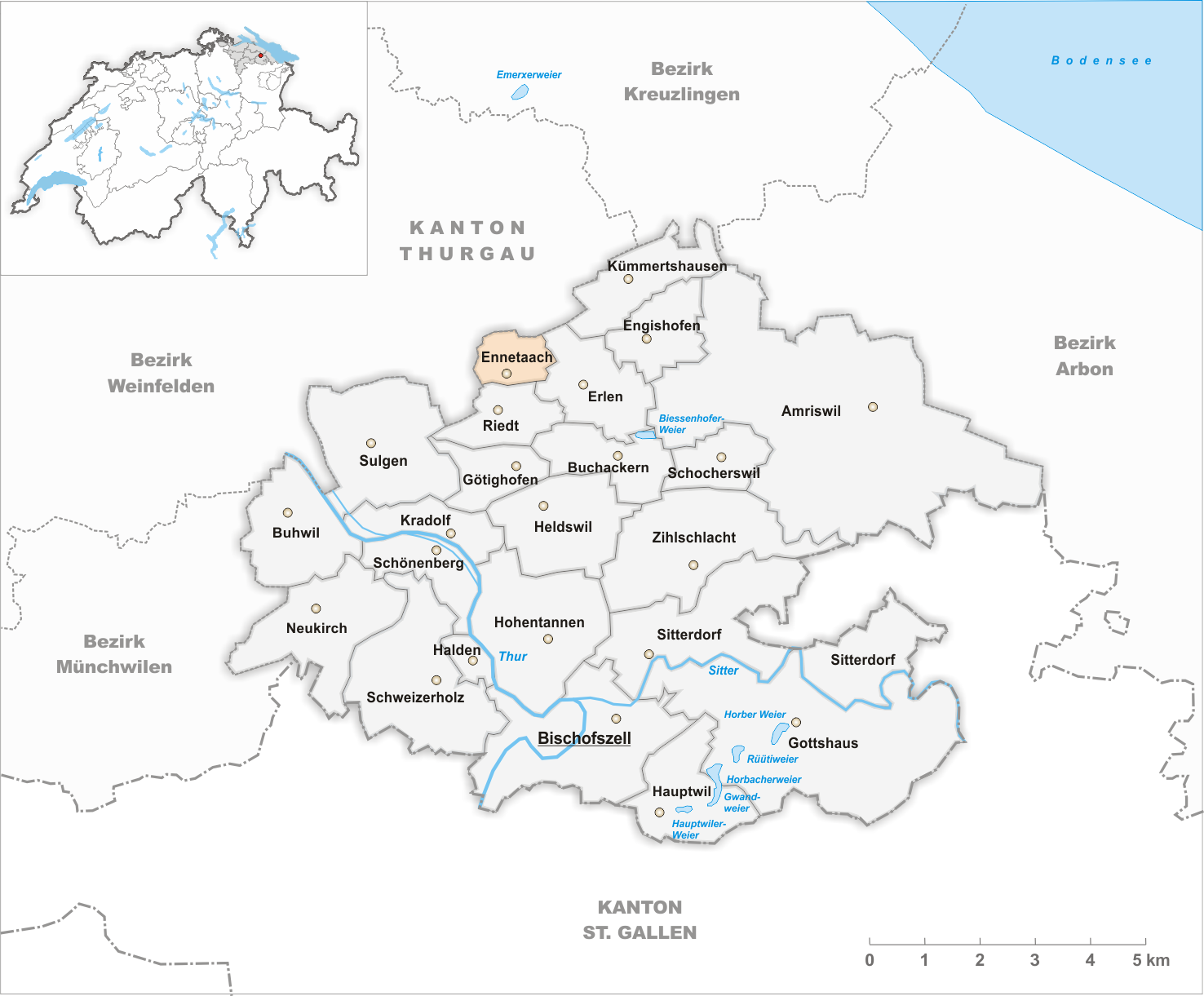 Municipality Ennetaach